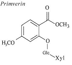 Formula of primverin glycoside contained in Primula veris (cowslip).